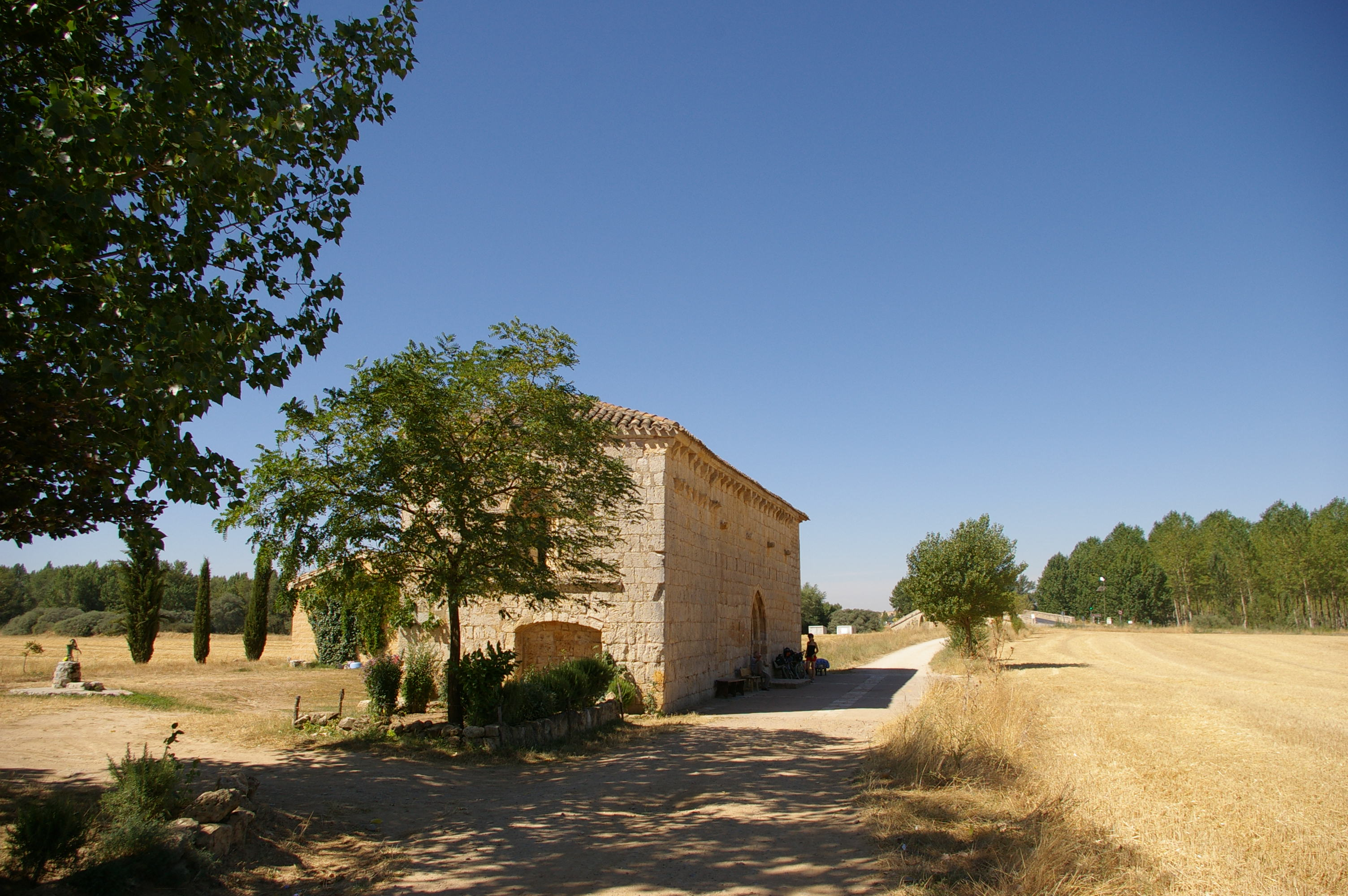 Refugio (basic accomodation for pilgrims) on the Way of Saint James, near Itero del Castillo, east of Castrojeriz, province of Burgos, Spain. Used on Pelgrimsroute_naar_Santiago_de_Compostella.